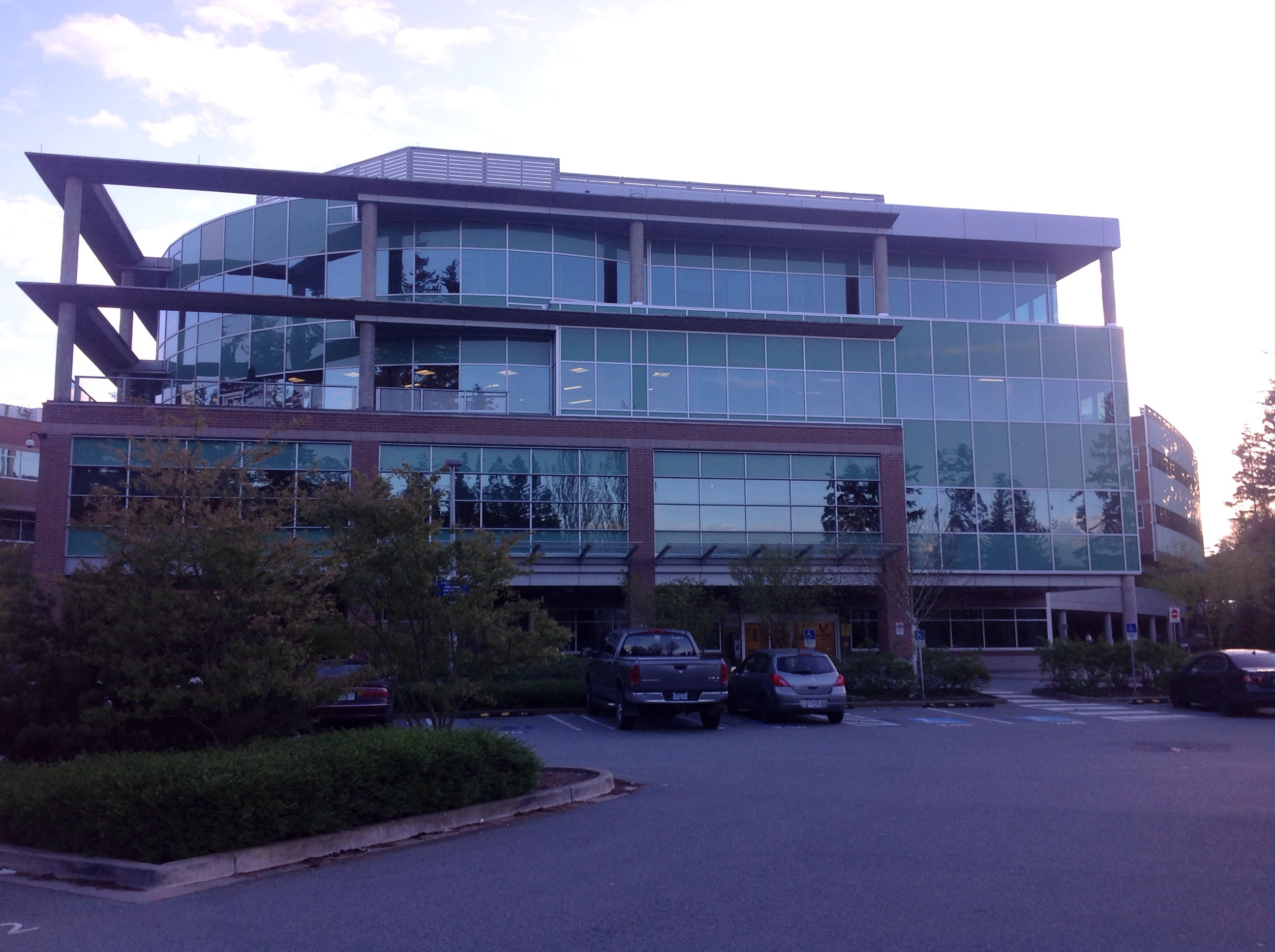 View of eastern side of Abbotsford Regional Hospital and Cancer Centre